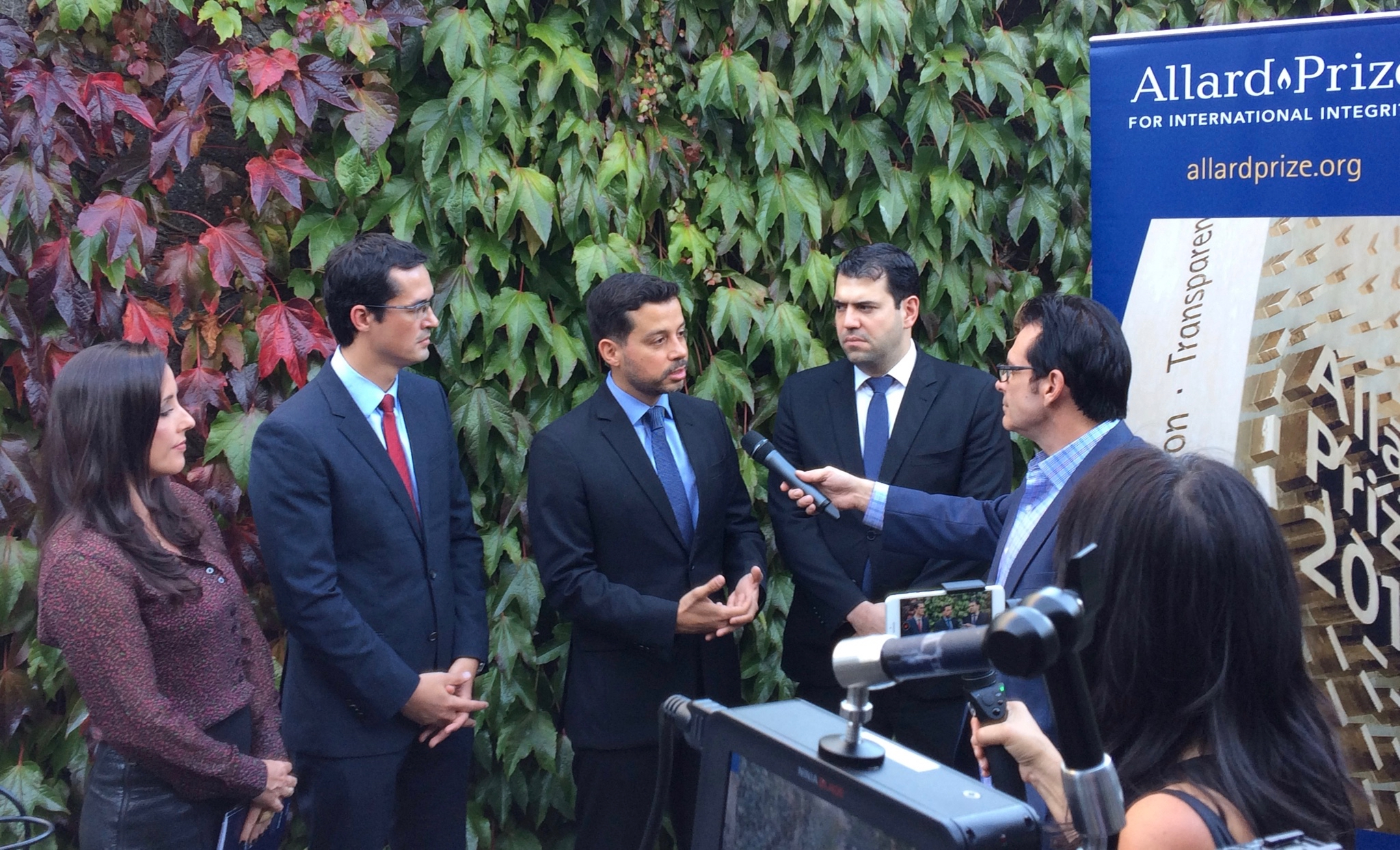 Political commentator Jimmy Dore of TYT Network interviews members of Operation Car Wash / Operação Lava Jato at the 2017 Allard Prize ceremony. Team leader Deltan Dallagnol is second from the left. Vancouver, British Columbia, Canada